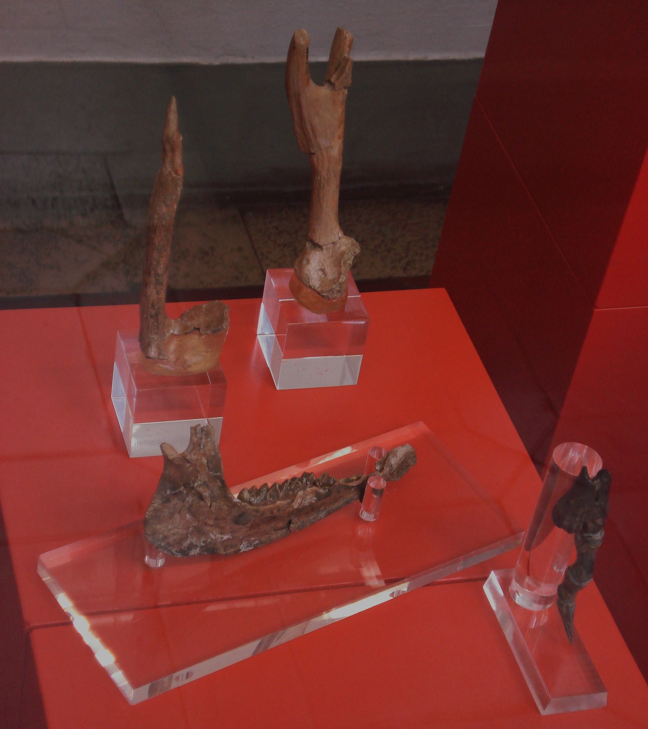 fossil of heteroprox